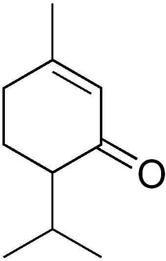 chemical structure of racemic piperitone